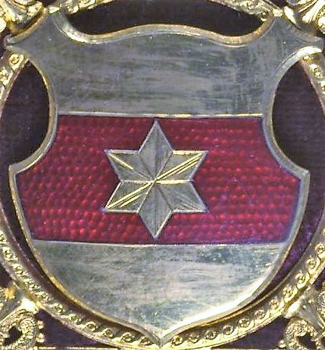 Coat of arms of the city of Bozen from 1893, Österr. Staatsarchiv Wien (Runkelstein castle's donation enveloppe)